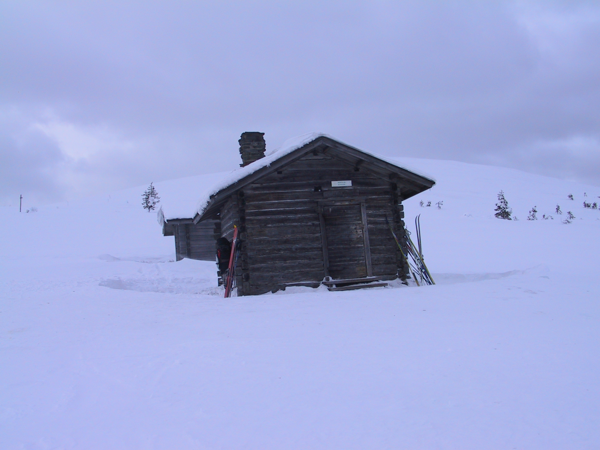 The Montell hut, a Wilderness hut, in Pallas-Yllästunturi National Park, Enontekiö, Finland. The hut is not original.